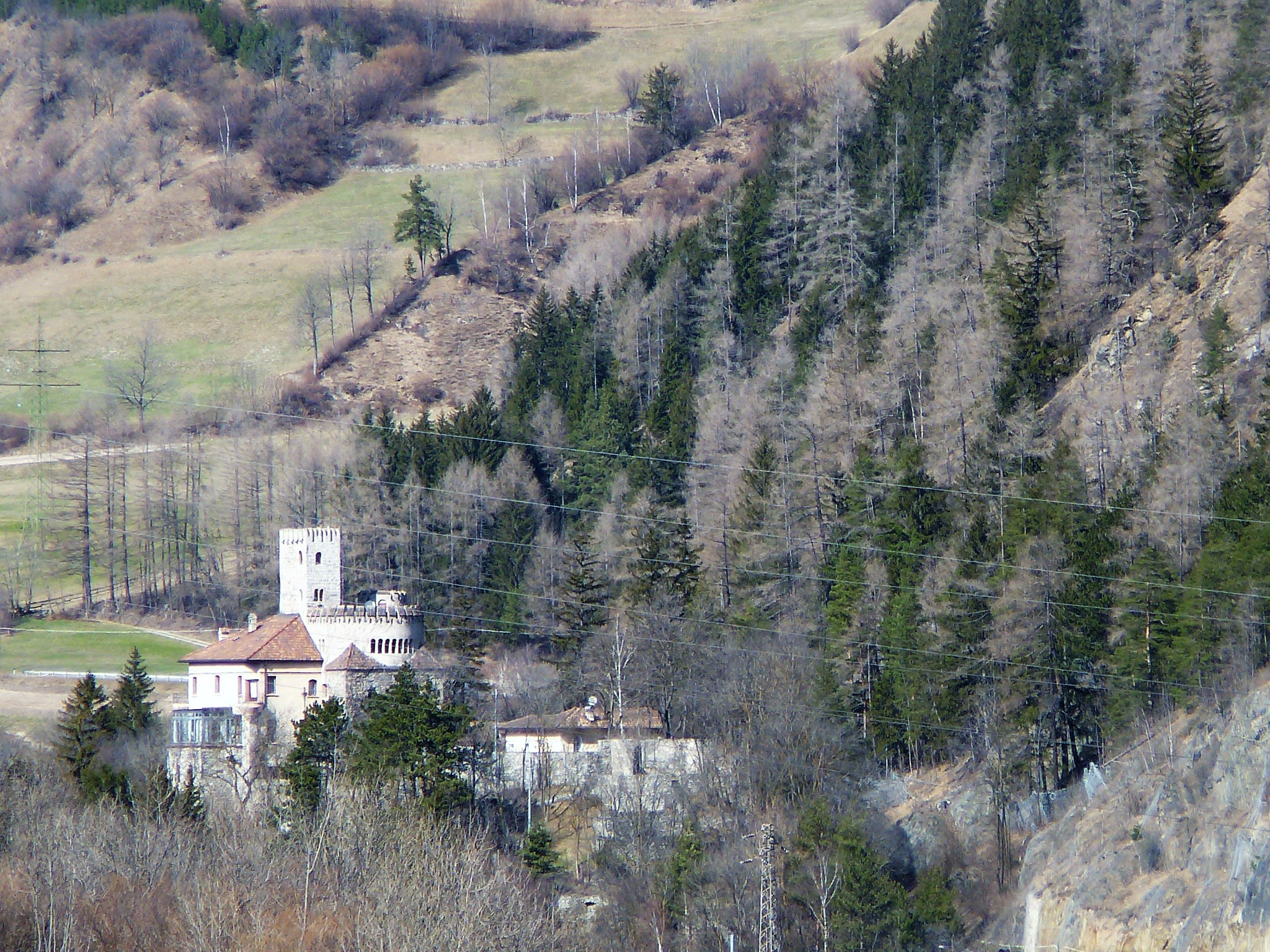 Welfenstein Castle in South Tyrol.